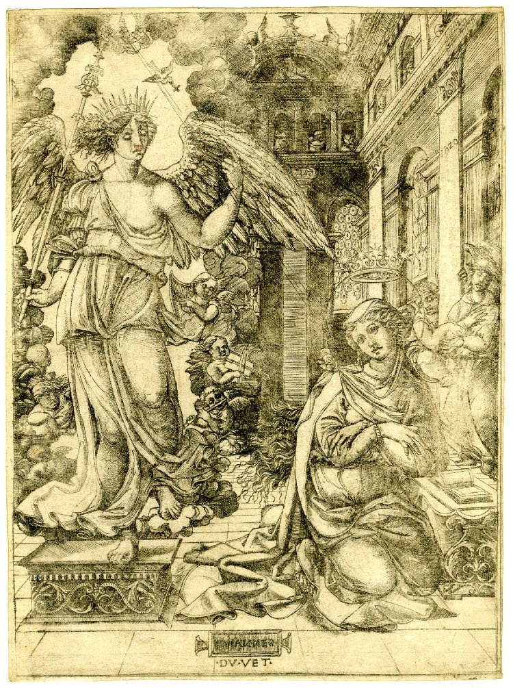 The Annunciation. Depicted people: Virgin Mary, Gabriel and putti